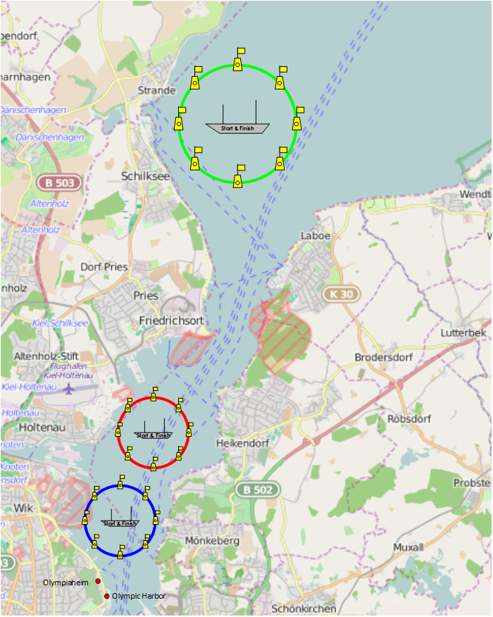 Open street map view of the current map of Firth of Kiel. Projected are the 1936 Olympic sailing courses. This map may be incomplete, and may contain errors. Don't rely solely on it for navigation.